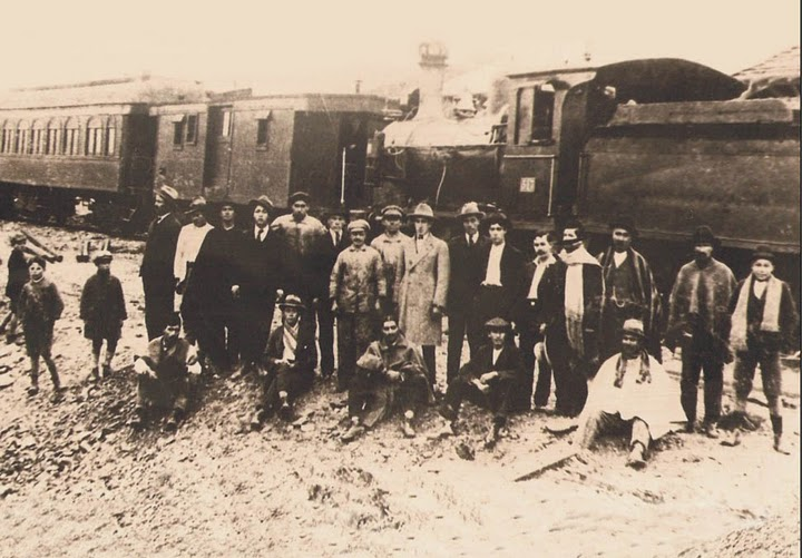 Picture from 1926, taken months after the Pichilemu railway station was inaugurated.